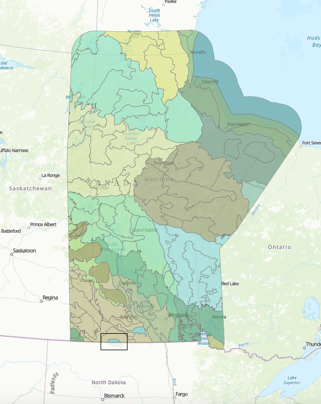 Map I created of the ecoregions in Manitoba. The purpose of this is to show that Turtle Mountain Provincial Park is located in a distinct geographical area.